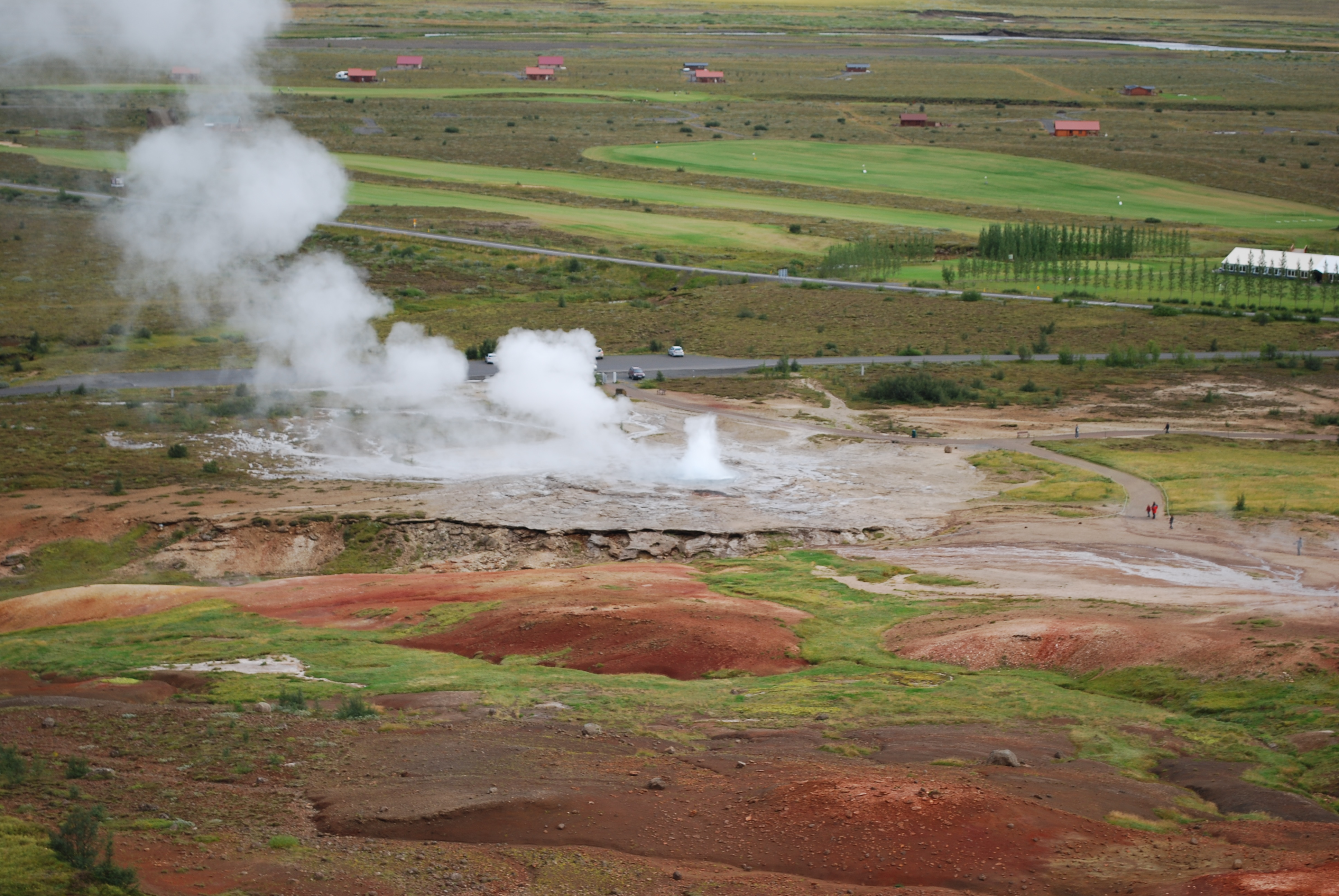 Eruption of Great Geysir, Iceland